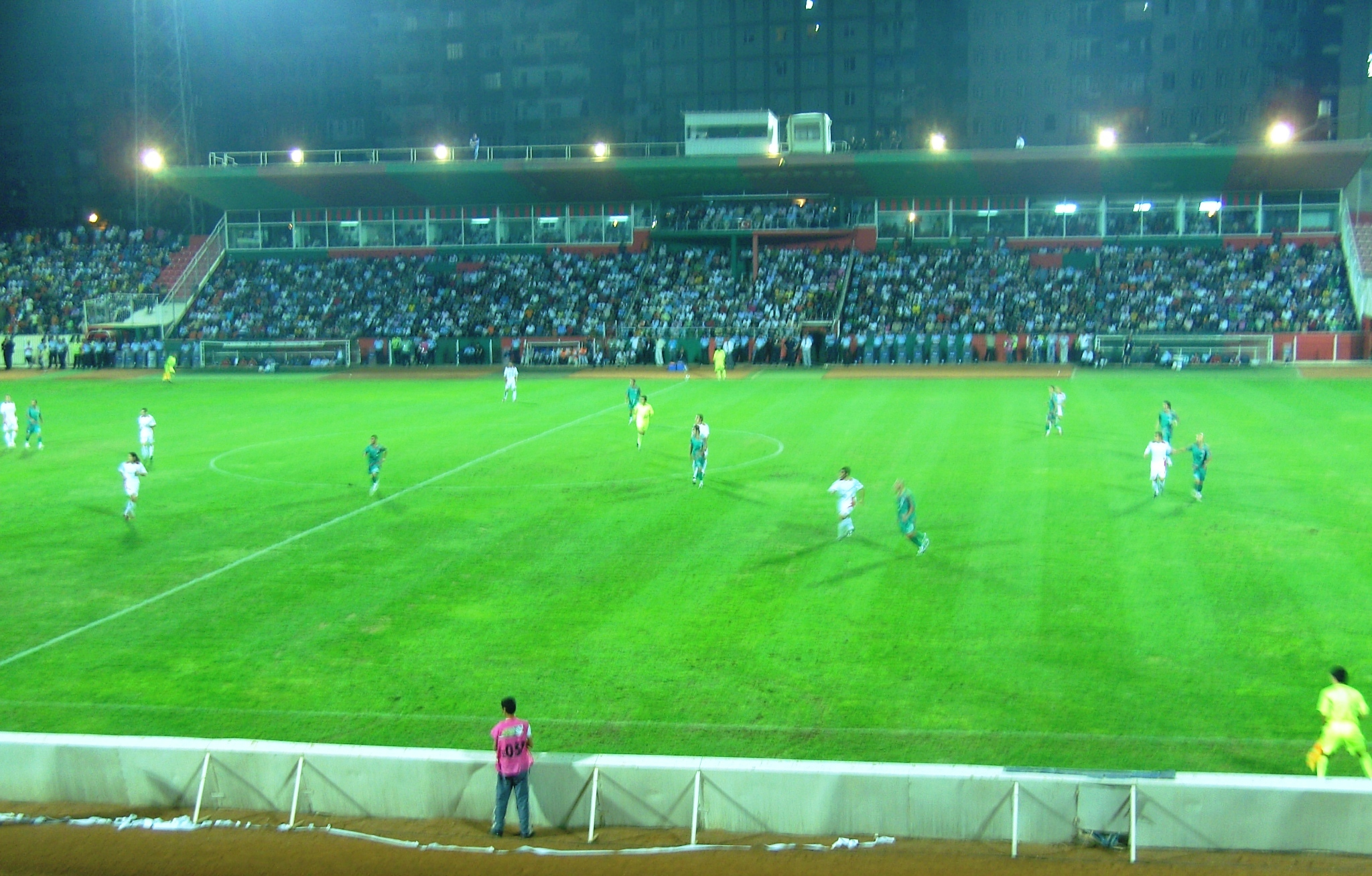 Diyarbakırspor-Boluspor match in 14 September 2008.